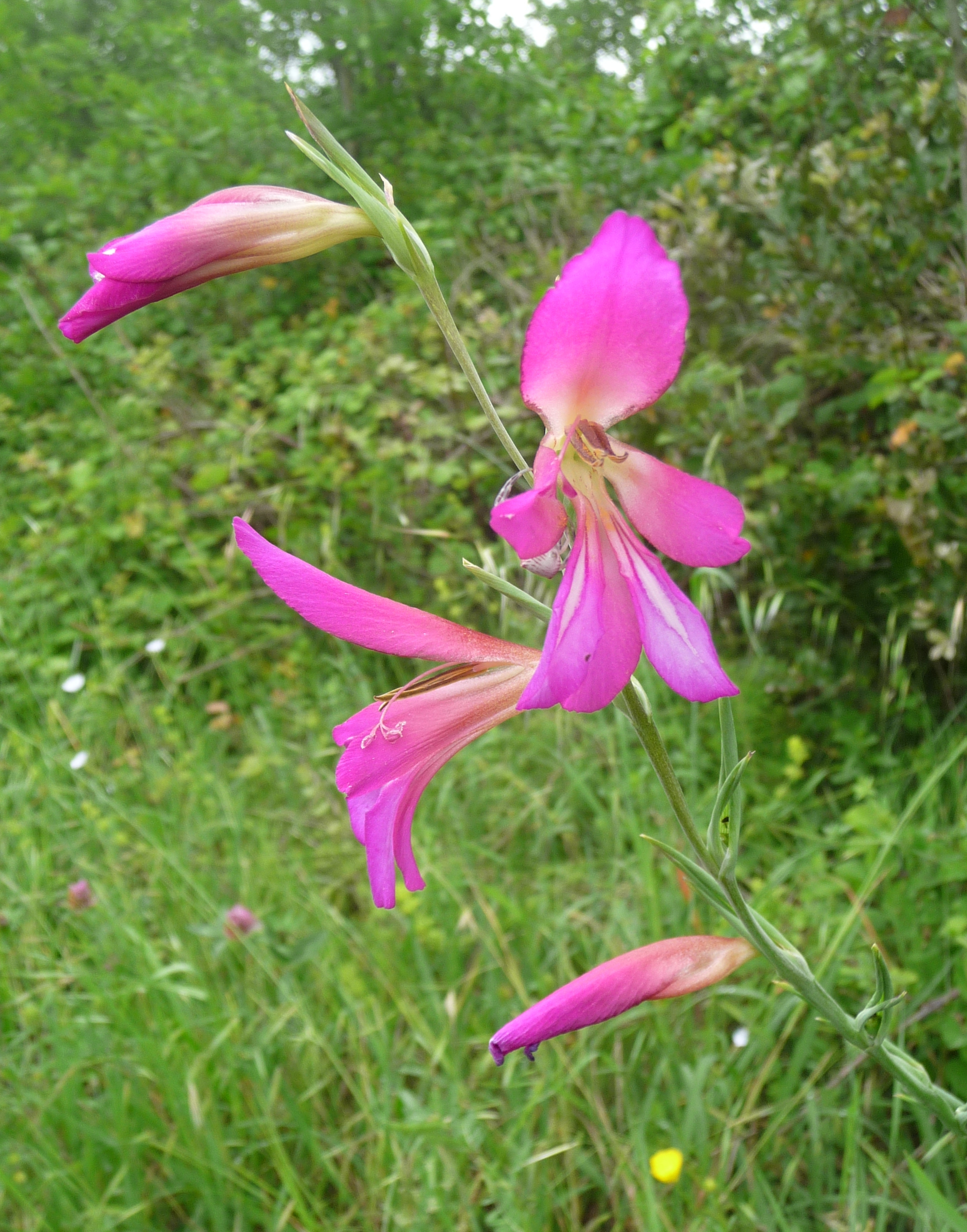 Gladiolus italicus, near Livorno, Tuscany, Italy (the spider on the flower is Thomisus onustus)